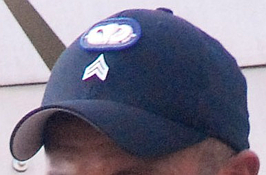 U.S. Army special skills instructor at the US Army Airborne School, better known as a "Black Hat"